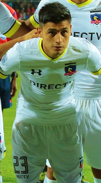 Claudio Baeza